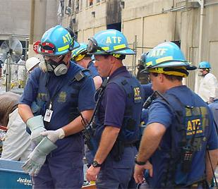 ATF Investigators working at a fire scene.